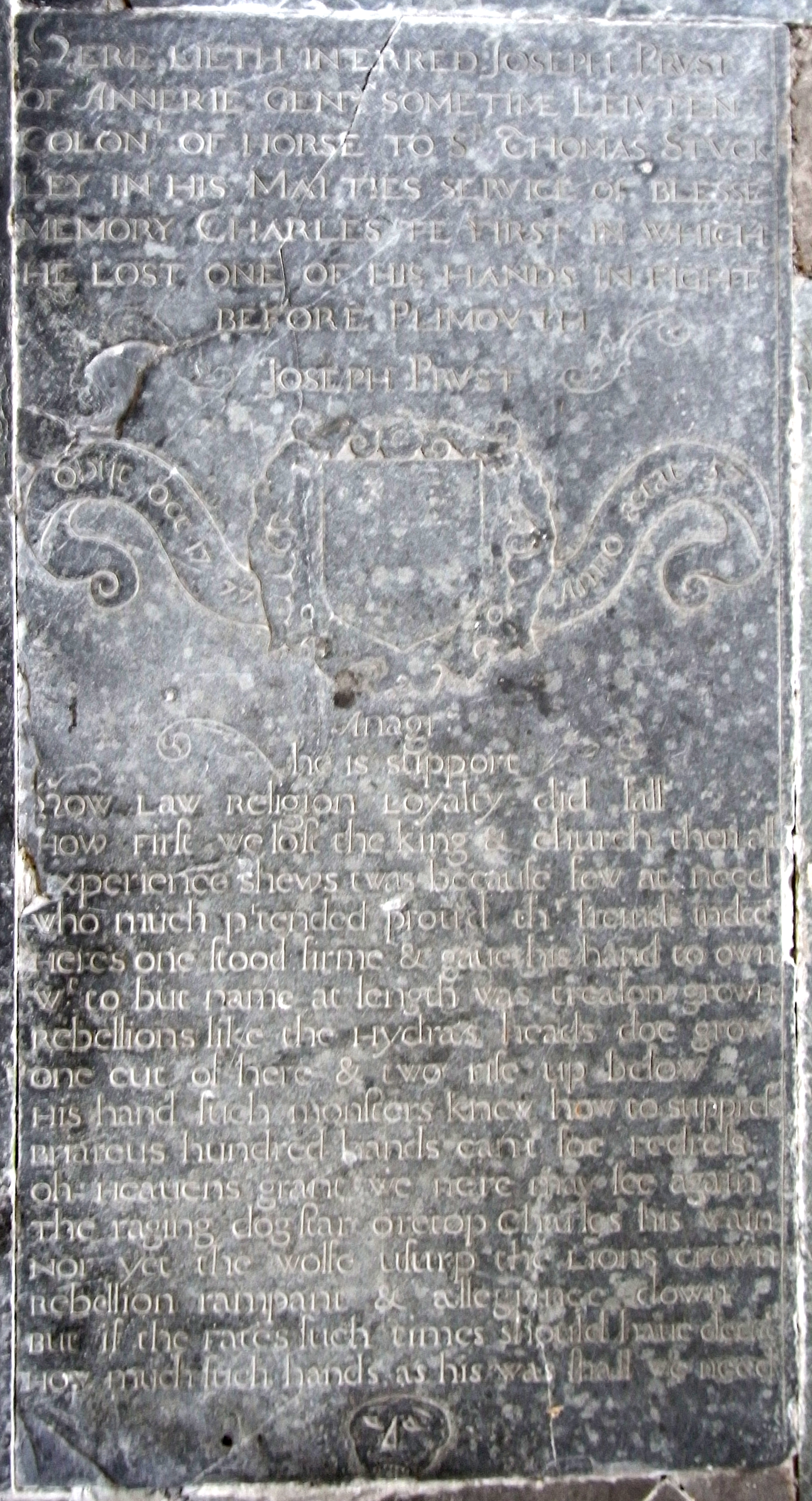 Ledger stone of Lt Col Joseph Prust (d.1677) of Annery, Monkleigh, Devon, in Annery Chapel, Monkleigh. Inscription: "Here lieth interred Joseph Prust of Annerie gent. sometime leiutent colon'l of horse to sr. Thomas Stuckley in his Maj'ties service of blessed memory Charles the First in which he lost one of his hands in fight before Plimouth. Joseph Prust, obiit Oct 17 77 (arms of Prust sculpted in relief ("Gules, on a chief argent two estoiles sable (Vivian, Heraldic Visitations of Devon, 1895, p.629)) anno aetat. 57. Anagr. He is support. How law, religion, loyalty did fall, How first we lost the king & church then all, Experience shews 'twas because few at need, Who much pr'tended proud th'r freinds indeed, Here's one stood firme & gave his hand to own, Wr to but name at length was treason grown, Rebellions like the Hydra's heads doe grow, One cut of here & two rise up below, His hand such monsters knew how to suppress, Briareus' hundred hands can't soe redress, Oh Heaven's grant we nere may see again, The raging dogstar o'retop Charles his wain, Nor yet the wolfe usurp the lion's crown, Rebellion rampant & allegiance down, But if the Fates such times should have decreed, How much such hands as his was shall we need".